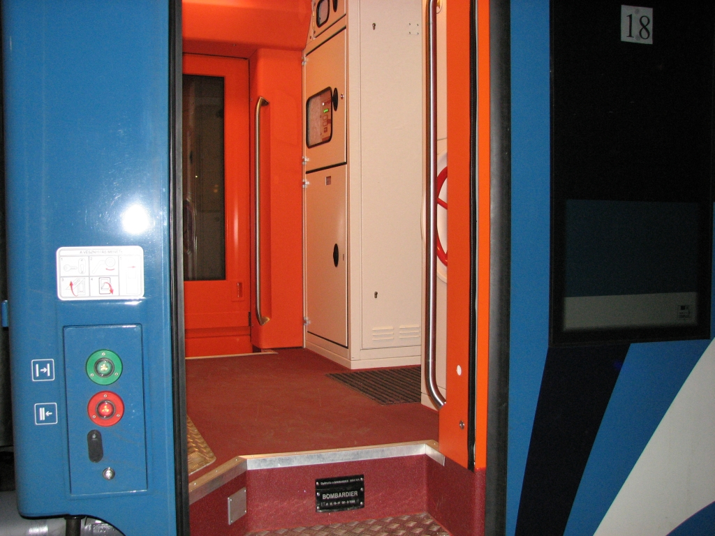 MÁV IC3 passanger coaches